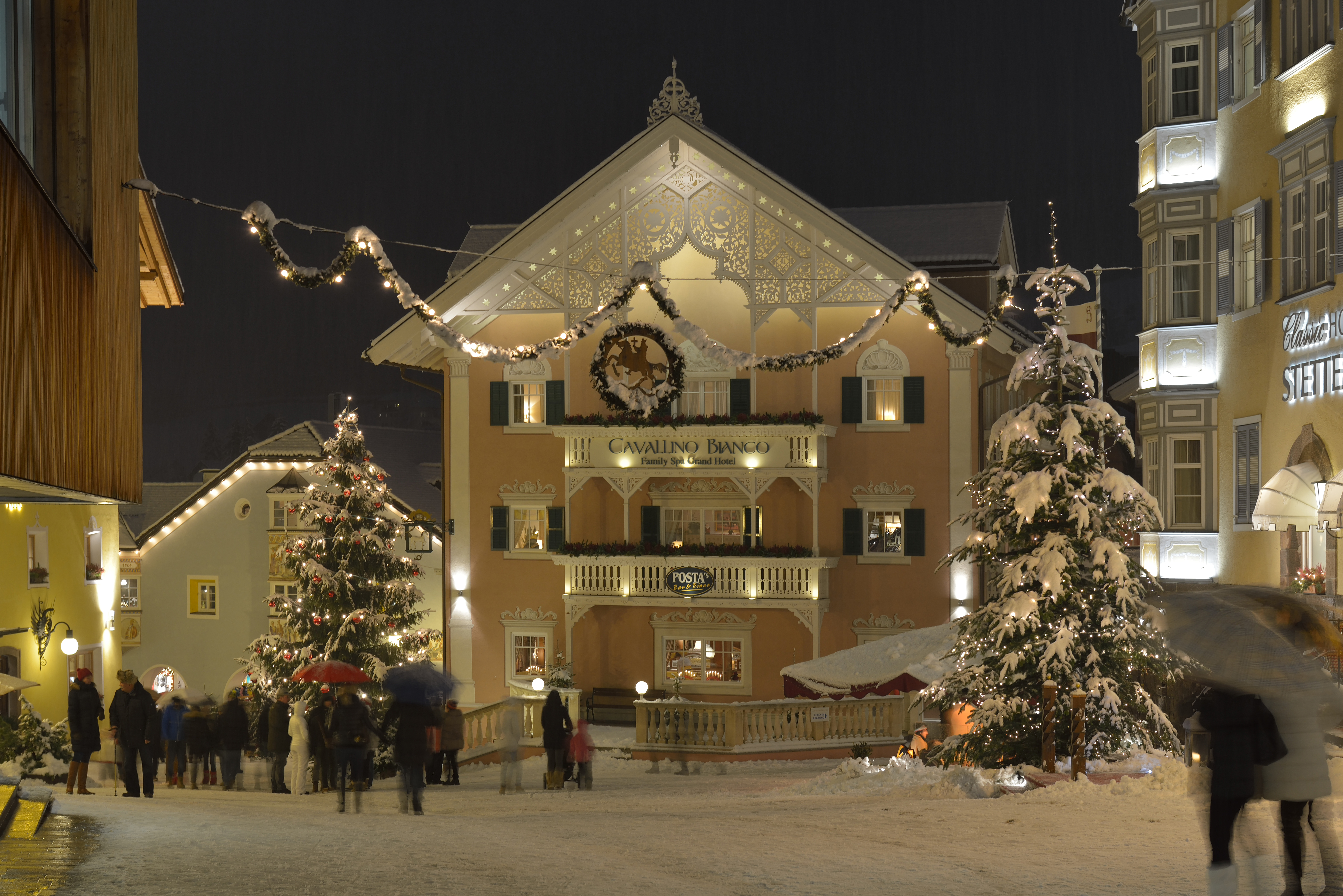 Christmas in St. Ulrich in Gröden in Gröden